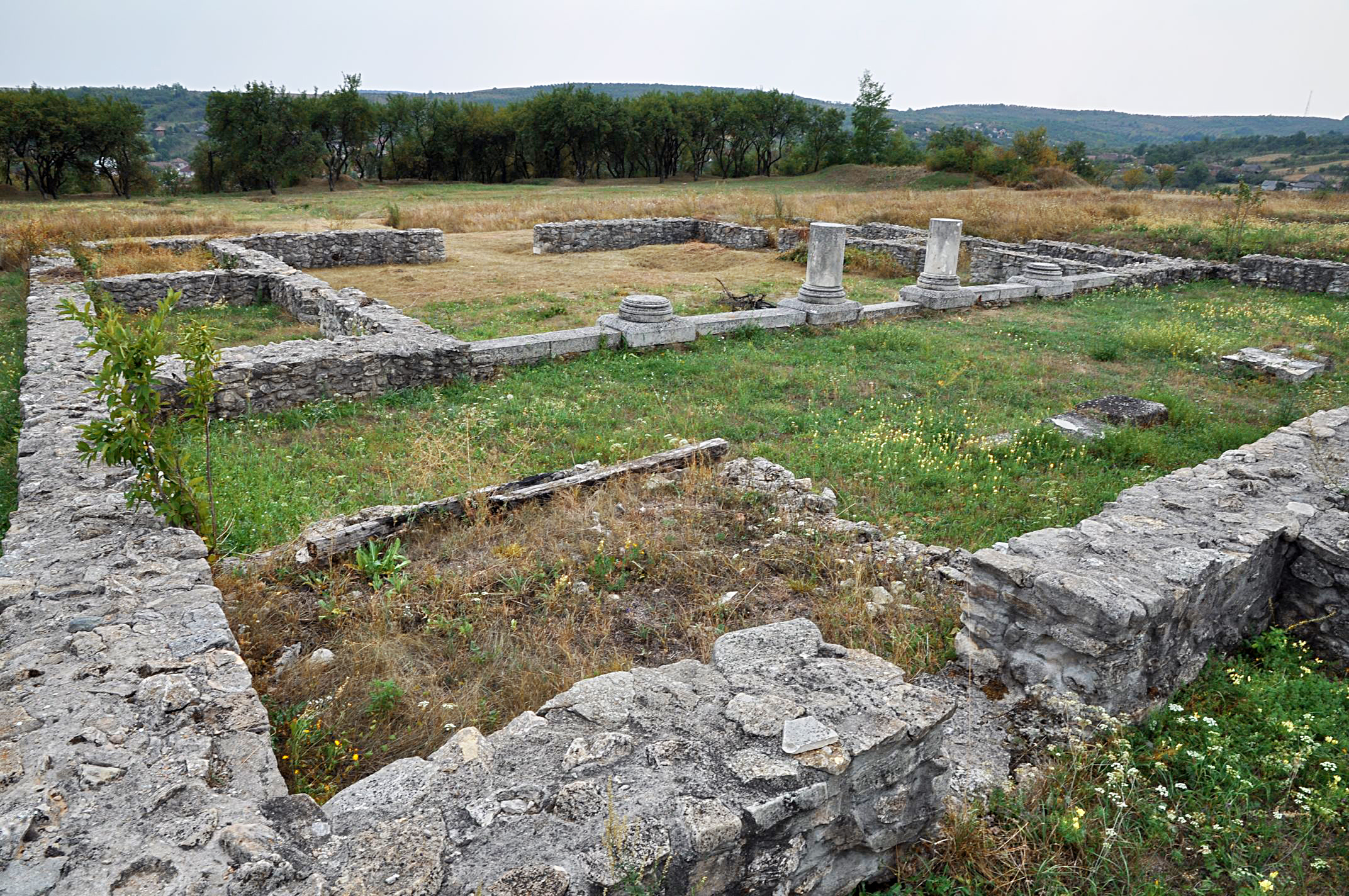 Castra of Buciumi, Sălaj County, Romania